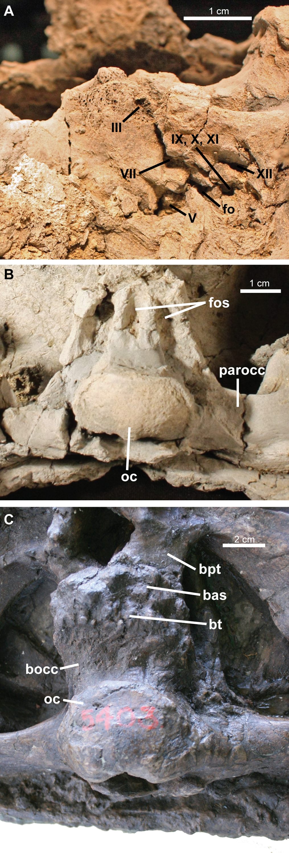 Ziapelta sanjuanensis, gen. et sp. nov., (holotype NMMNH P-64484), basicranium, in A, left lateral view (anterior is to the left, dorsal is towards the bottom), and B, ventral view (anterior is towards the top). AMNH 5403, Euoplocephalus tutus, basicranium in C, ventral view (anterior is towards the top). Abbreviations: III, opening for the oculomotor nerve; VII, opening for the facial nerve; V, opening for the trigeminal nerve; IX-X-XI, opening for the glossopharyngeal, vagus, and accessory nerves; XII, opening for the hypoglossal nerve; bas, basisphenoid; bocc, basioccipital; bpt, basipterygoid process; bt, basal tubera; fo, foramen ovale; fos, fossa in basioccipital; oc, occipital condyle.